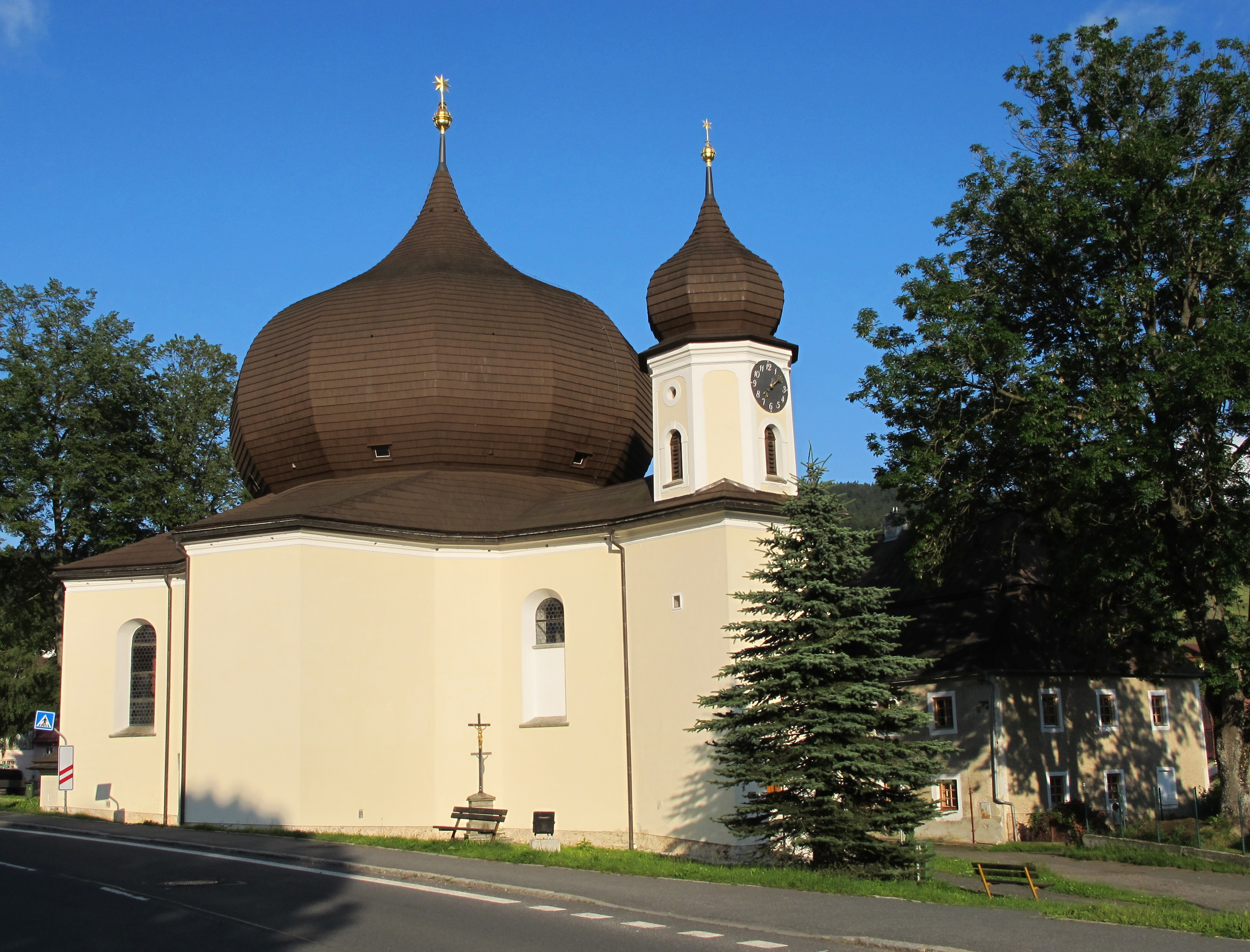 Church in Železná Ruda in Klatovy District